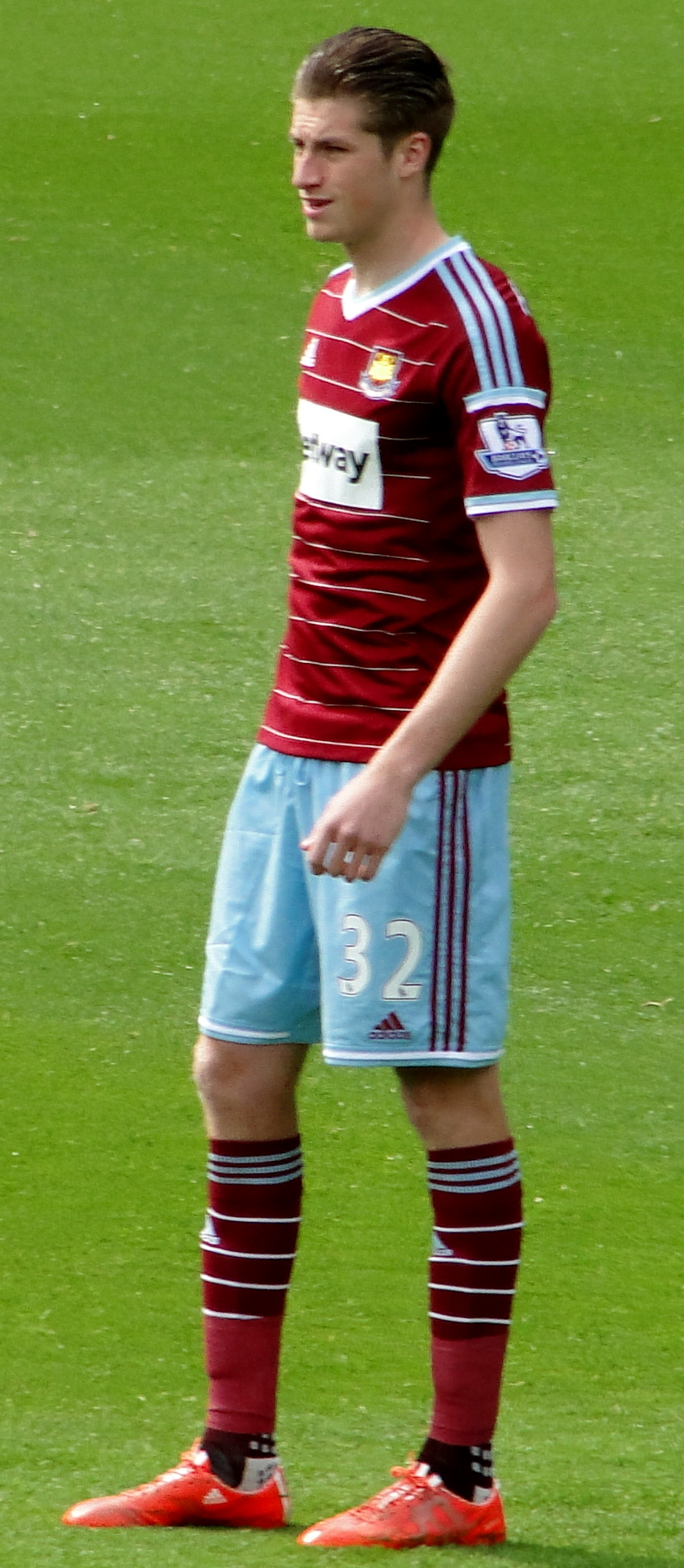 West Ham United player, Reece Burke playing against Burnley at the Boleyn Ground, May 2015.